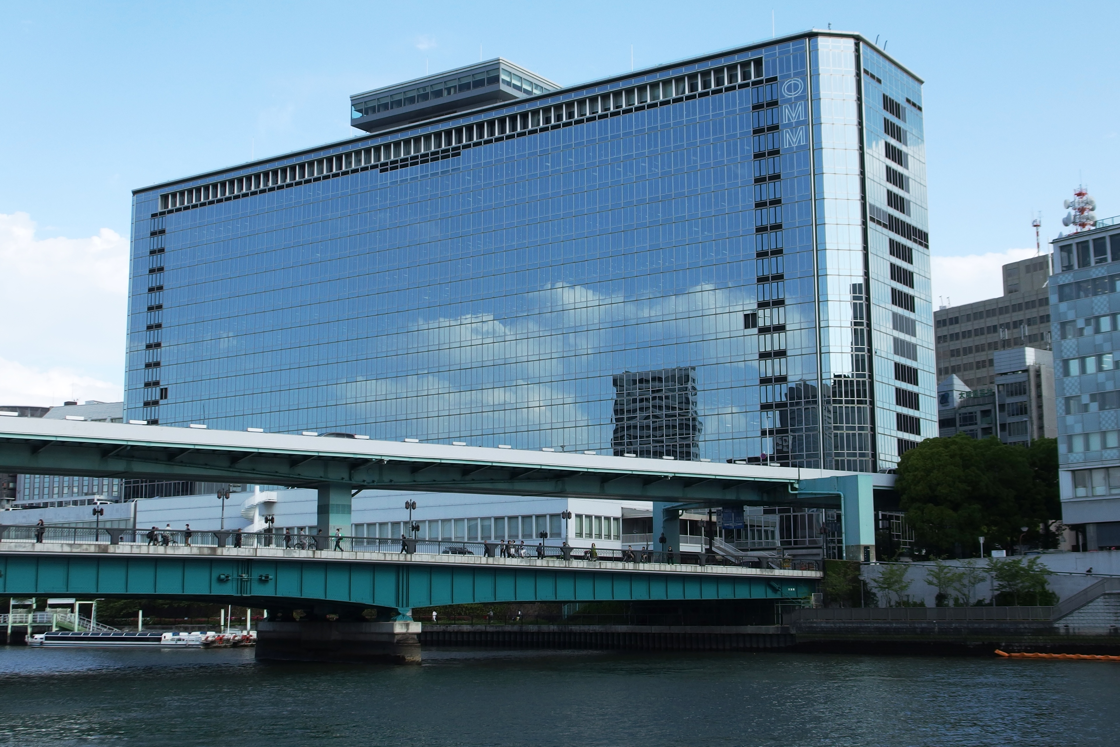 Osaka Merchandise Mart Building in Osaka, Osaka Prefecture, Japan